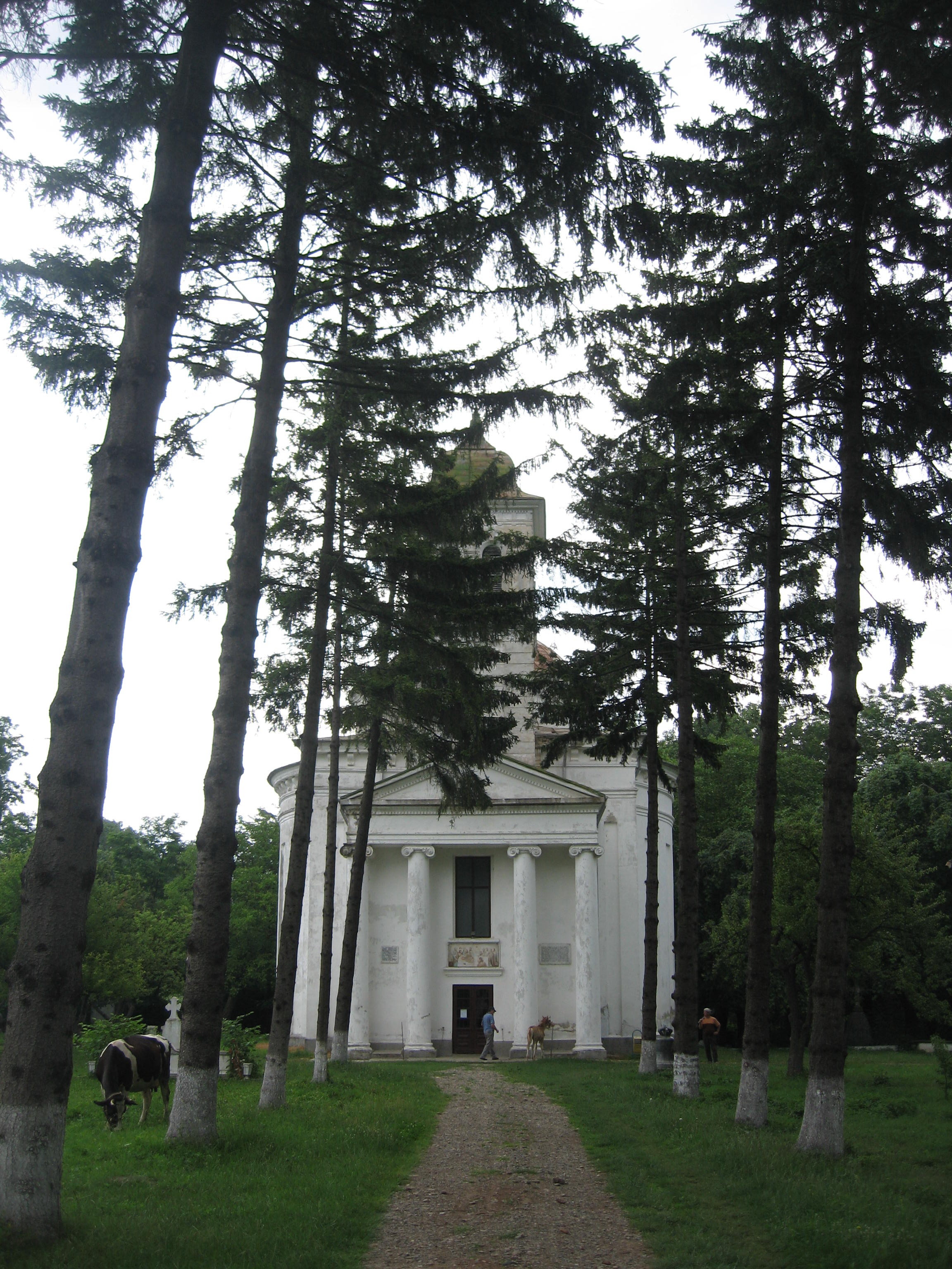 Church